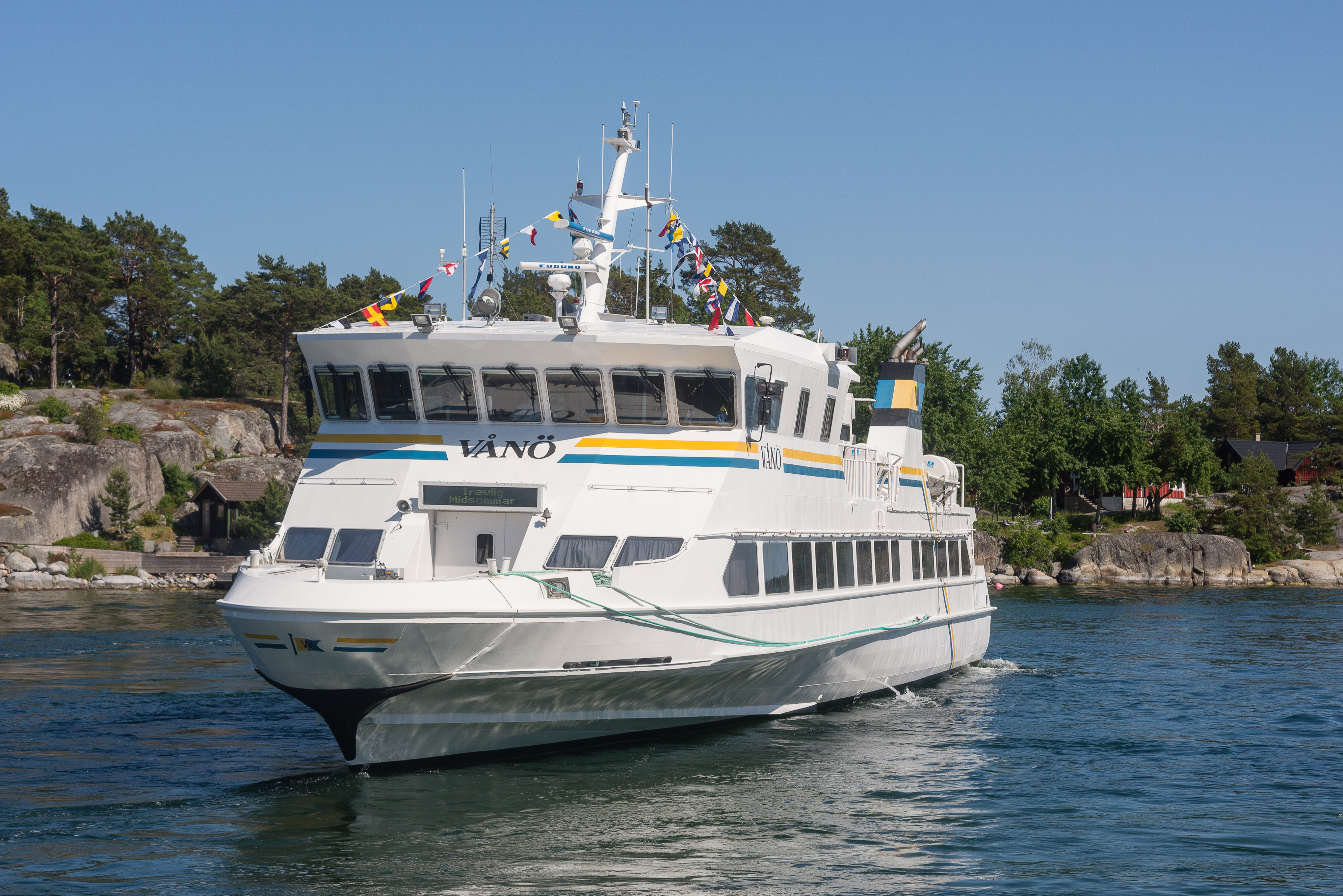 M/S Vånö at Södermöja jetty, Stockholm archipelago.